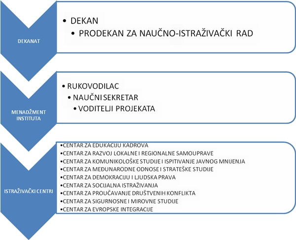 Shema hijerarhije Instituta za drustvena istraživanja